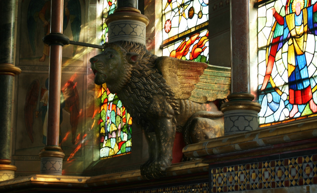 Winged Lion at St Mary's, Studley Royal. Ripon, Yorkshire, Great Britain.